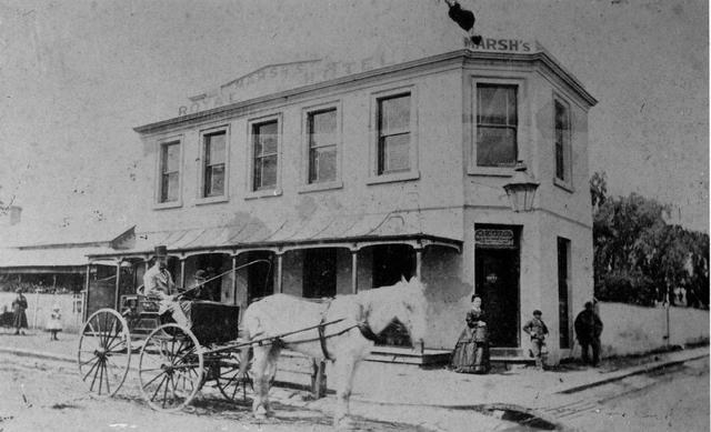 Picture of the Royal Hotel in Punt Road Richmond, Victoria, Australia.